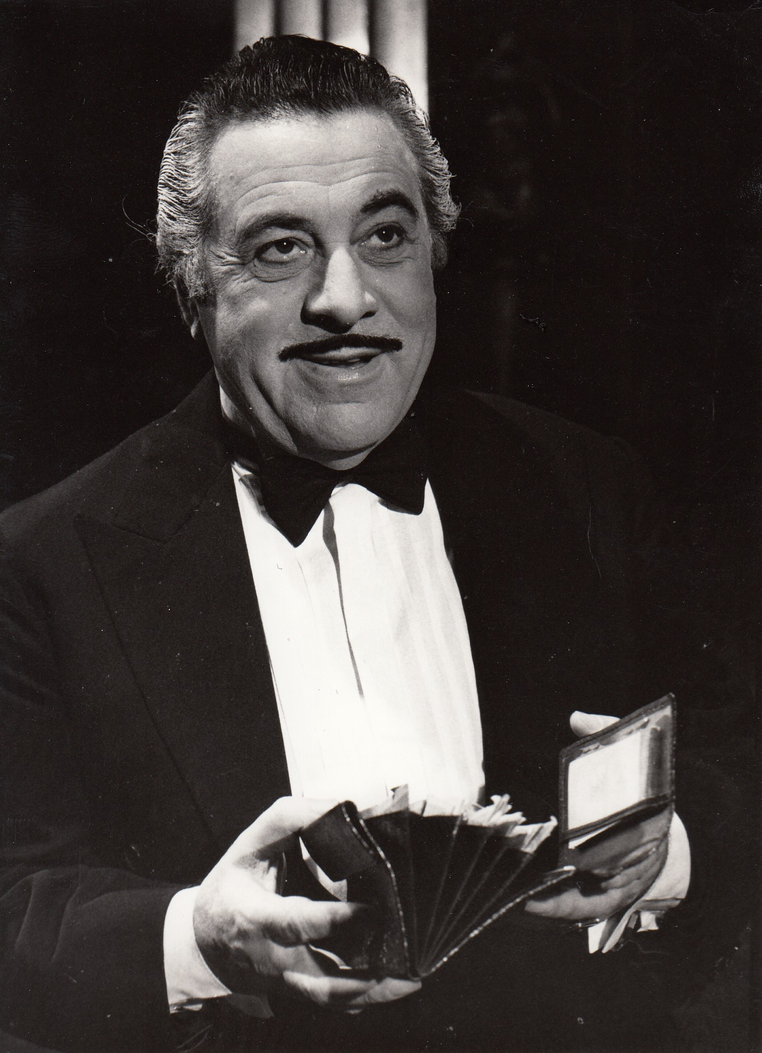 Mucsi Sándor a Bál a Savoyban című operettben